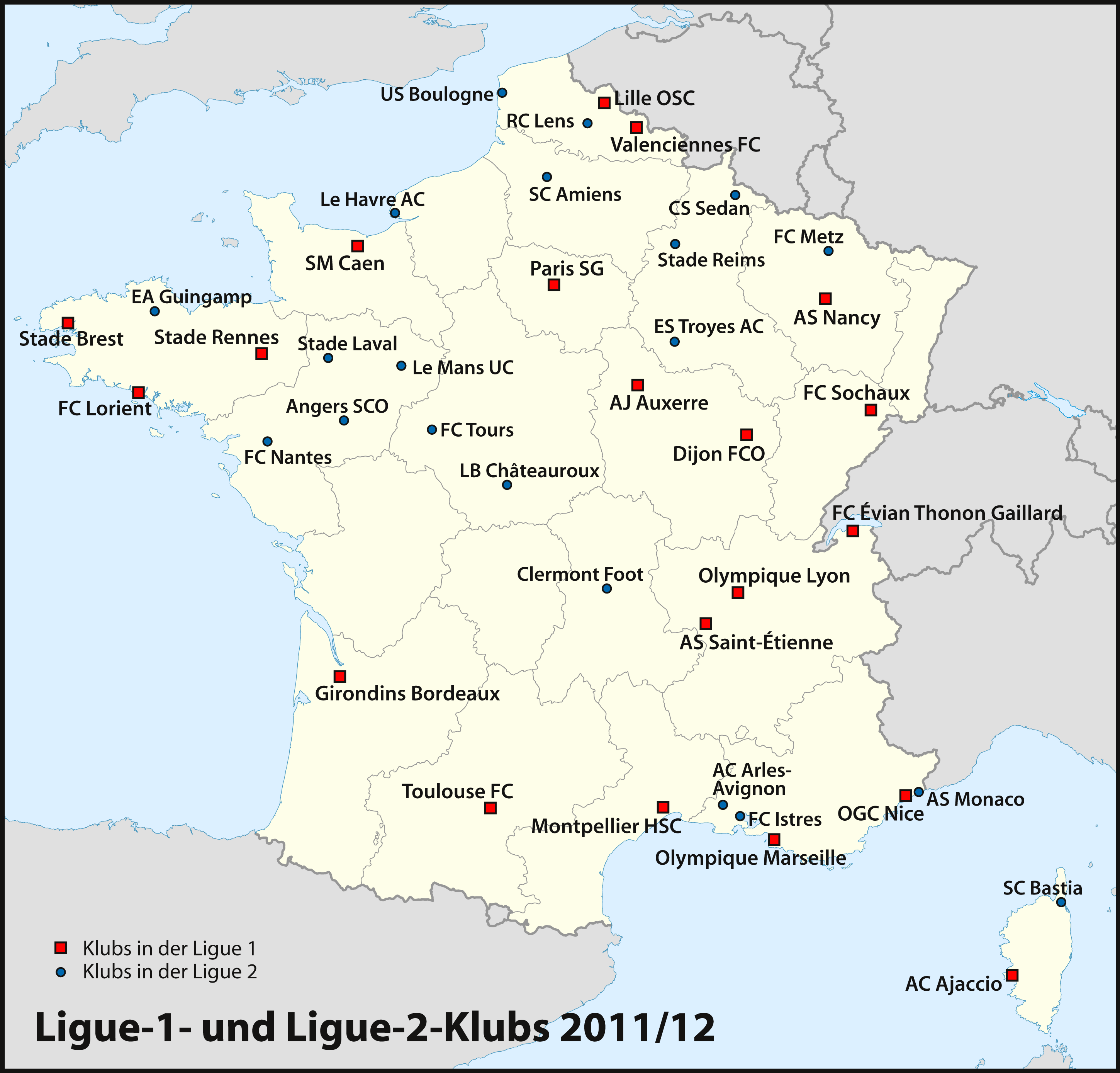 Map of the Ligue 1 and Ligue 2 teams for 2011/12 season